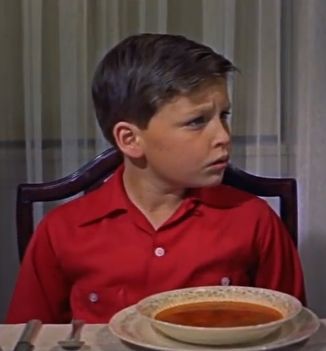 Cropped screenshot of Christopher Olsen from the trailer for the film Bigger Than Life (1956).